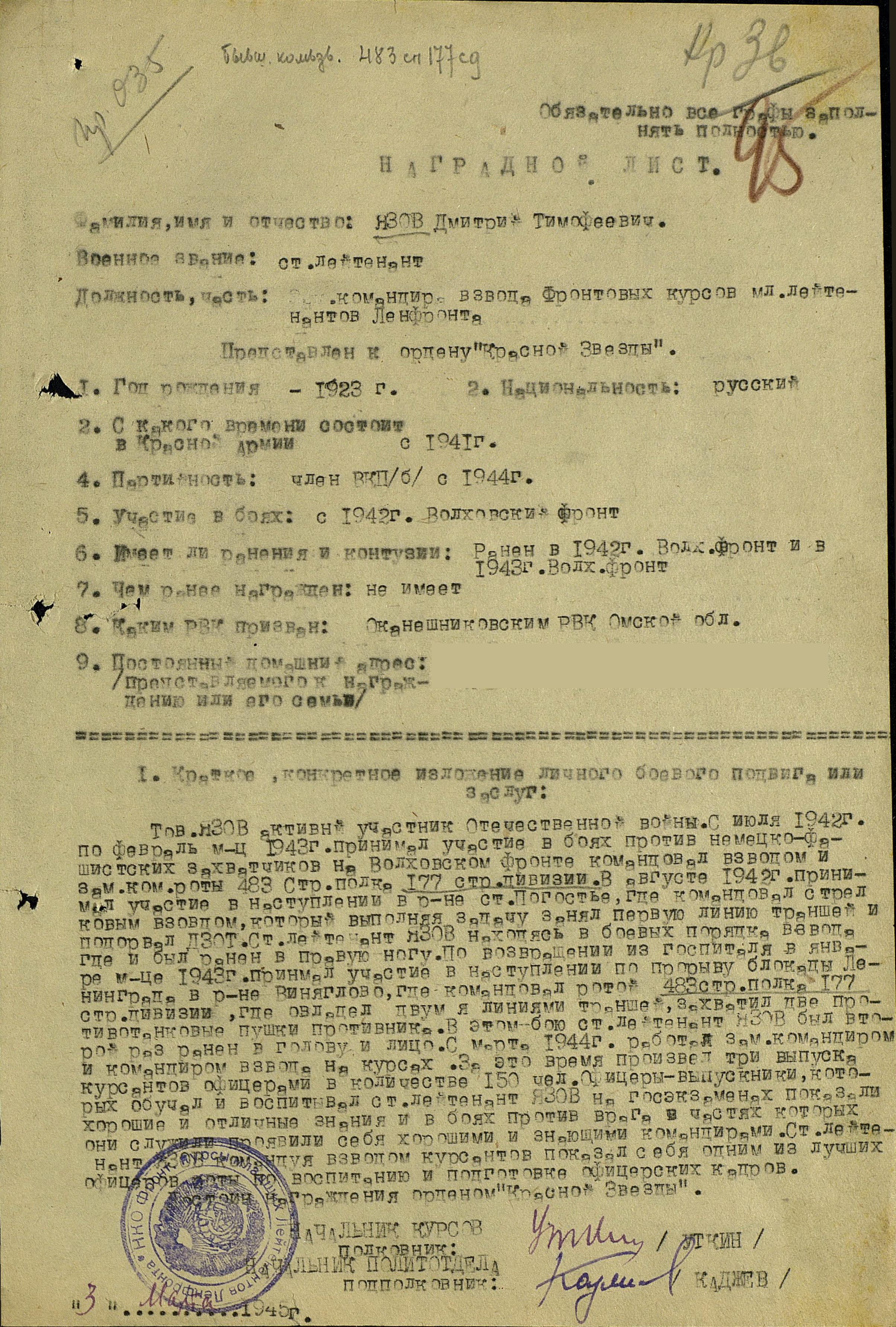 Award submission for awarding an Order of the Red Star to Dmitriy Yazov